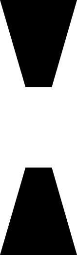 The length mark of the International Phonetic Alphabet